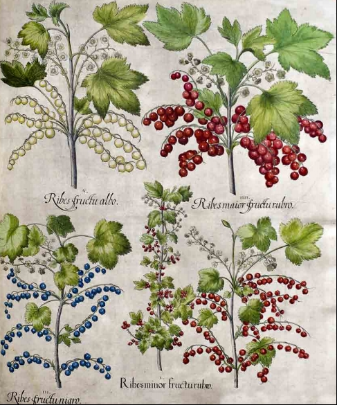 Ribes spp. from a hand-coloured copy of Hortus Eystettensis